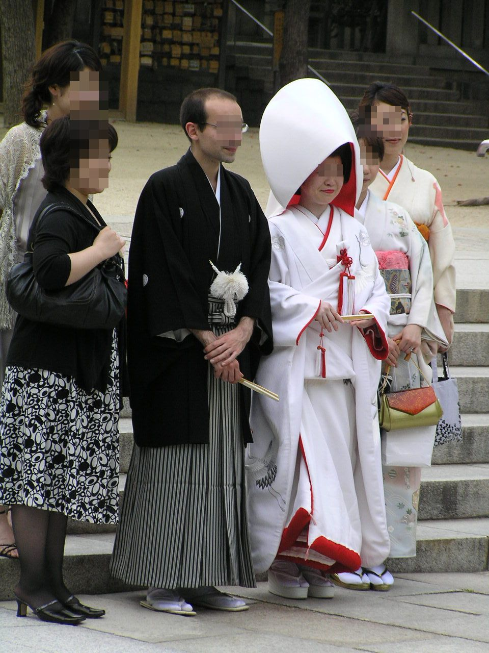 Minatogawa shrine Wedding of shinto